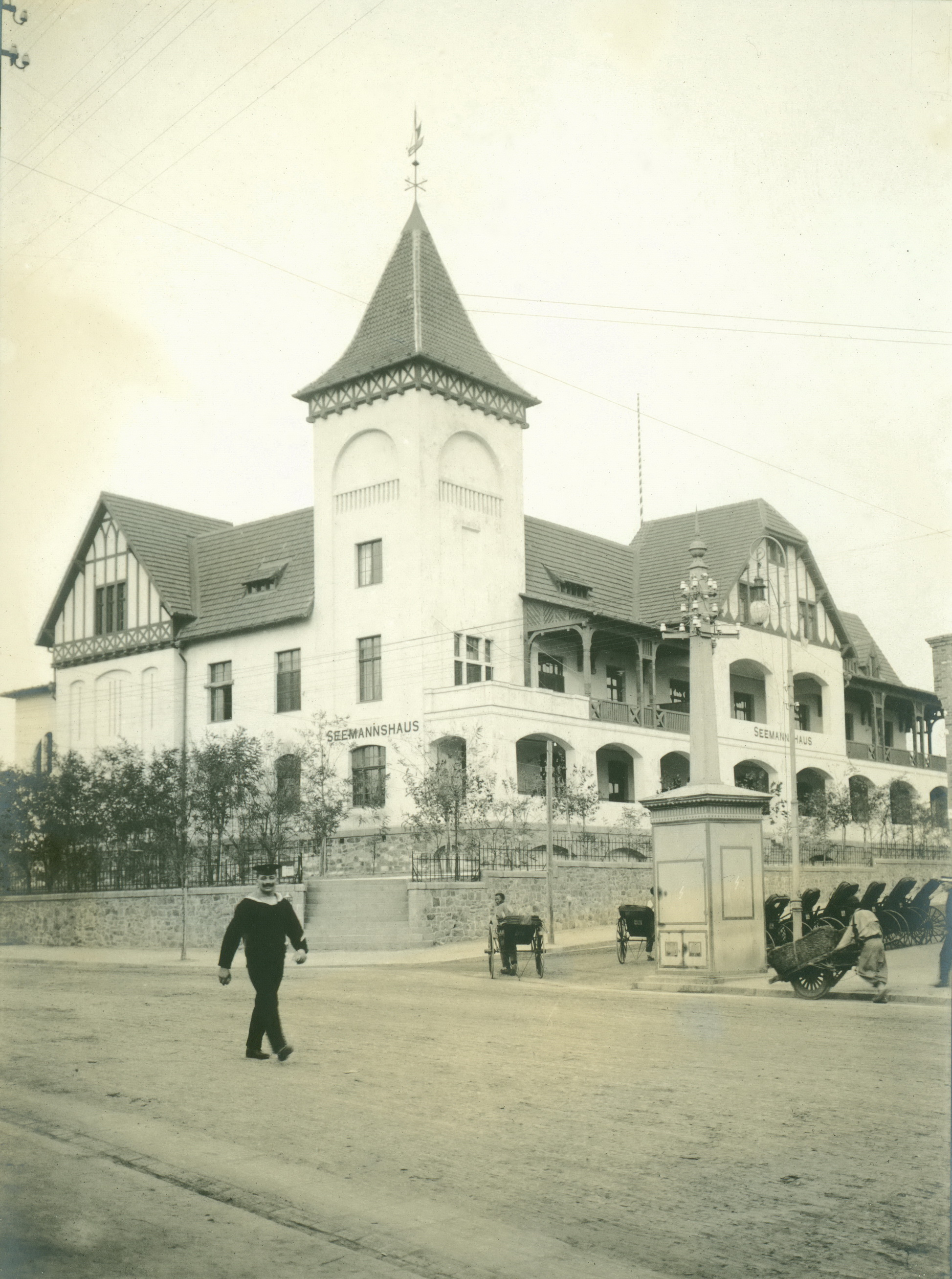 Seaman house ~ 1910